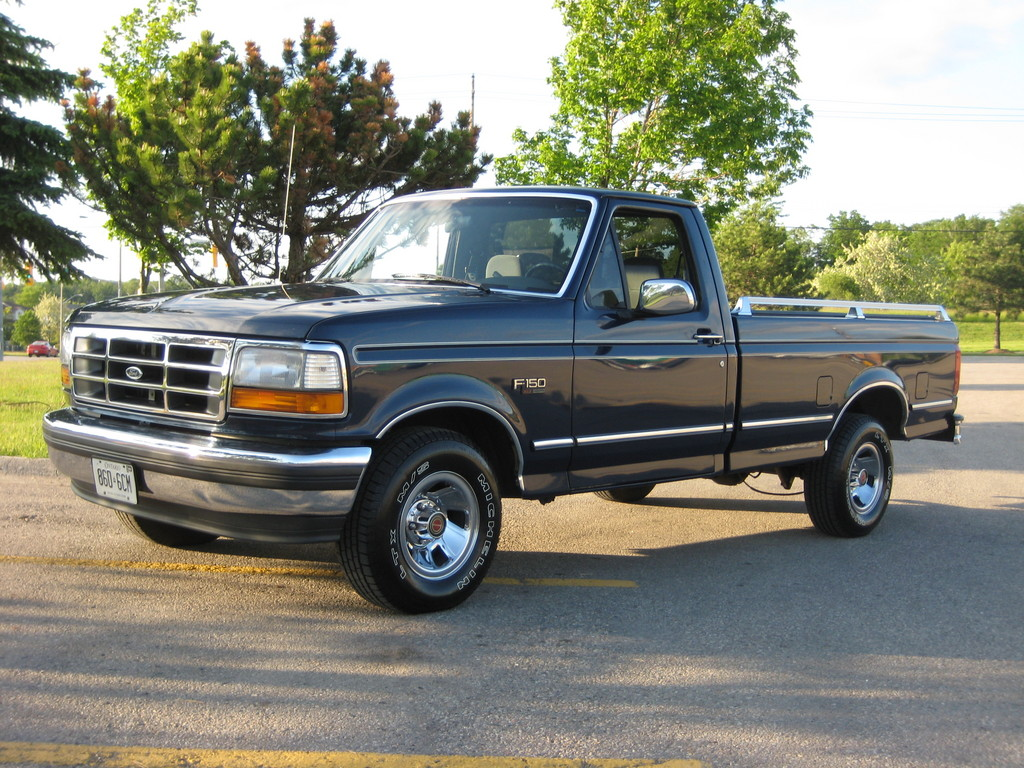 1993 F-150 completely stock with dual gas tanks